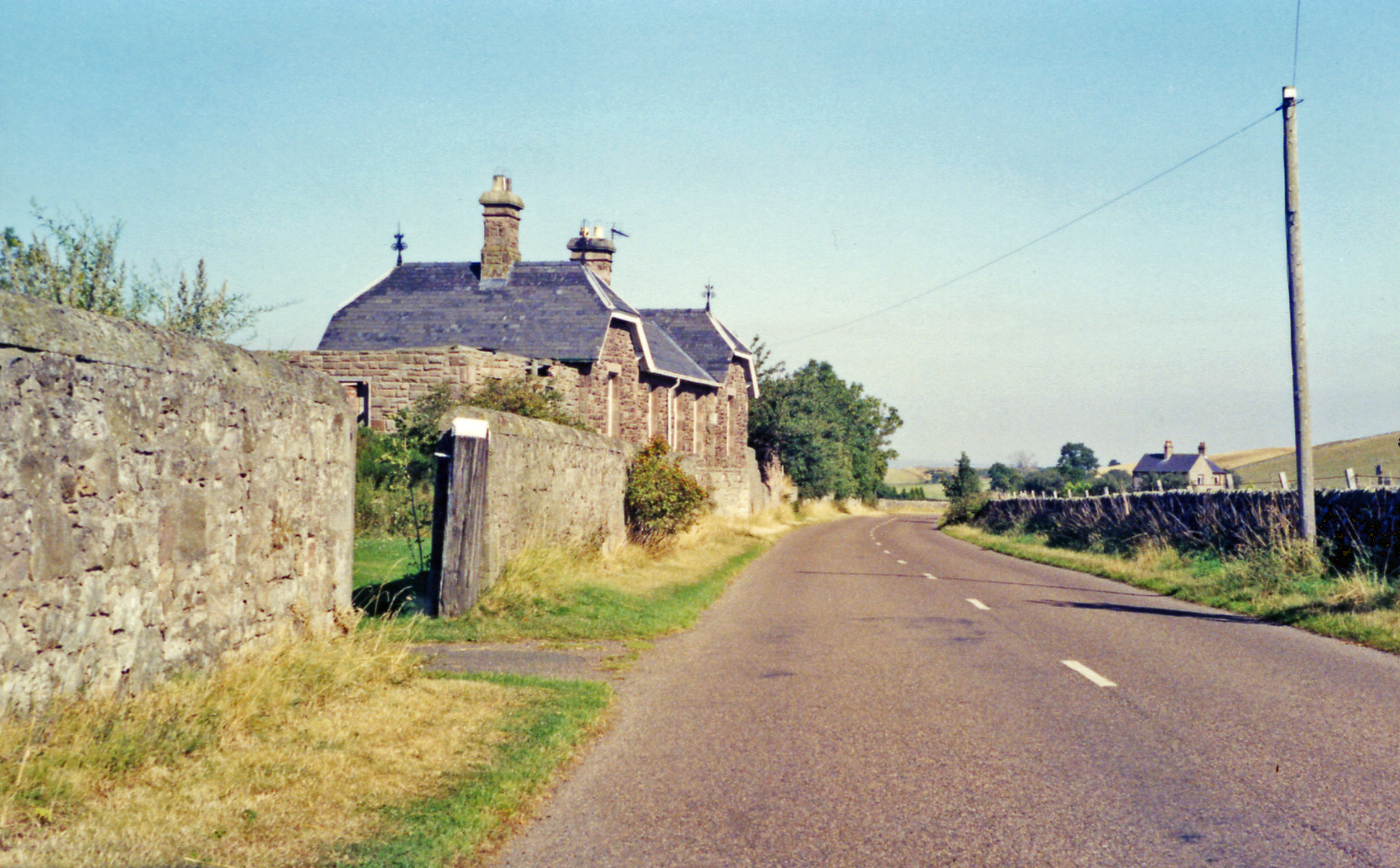 Former Kirknewton station, 1991. View eastward on B6351, towards Wooler and Alnwick: ex-NER Alnwick - Wooler - Coldstream line. The station (on left, long since converted to a private house), last saw passengers 22/9/30, goods 30/3/53. Wooler - Coldstream closed finally from 29/3/65, after Wooler - Ilderton had been severed earlier and Alnwick - Ilderton closed 2/3/53.